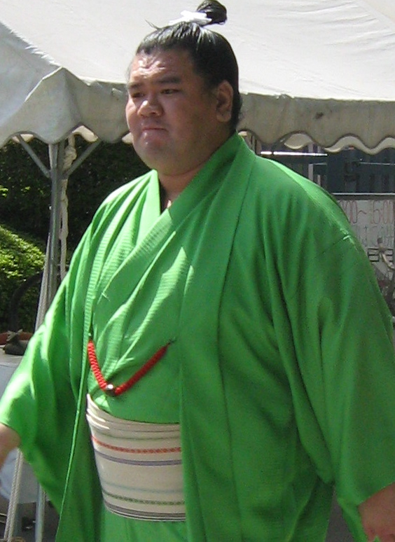 taken at 08 Sep tournament